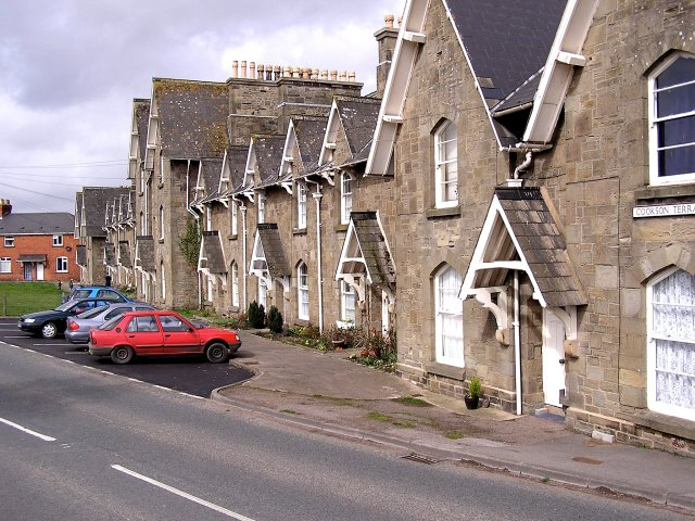 Cookson Terrace, Lydney. Built by the Severn & Wye Railway Co and named after the chairman Joseph Cookson.